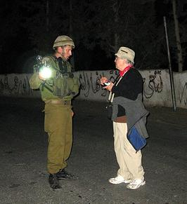 This photo shows Martha Larsen, member of one of Meta Peace Team's international peace teams sent to the West Bank, as she de-escalates an Israeli soldier during a raid. It is nighttime, and the soldier shines his flashlight at the camera.